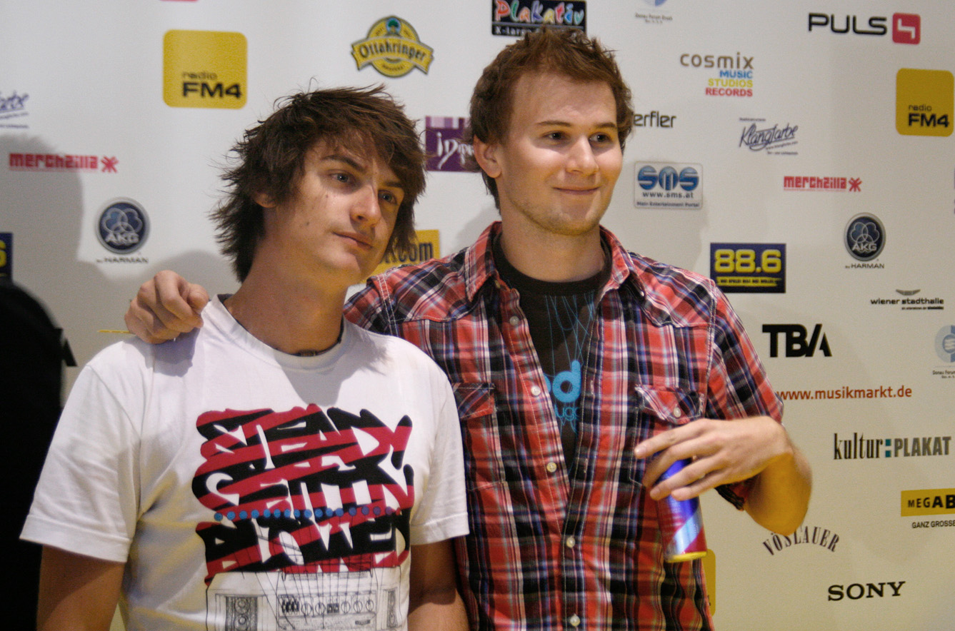 Camo and Krooked at the Amadeus Austrian Music Award 2010 (Wiener Stadthalle, Vienna, Austria)